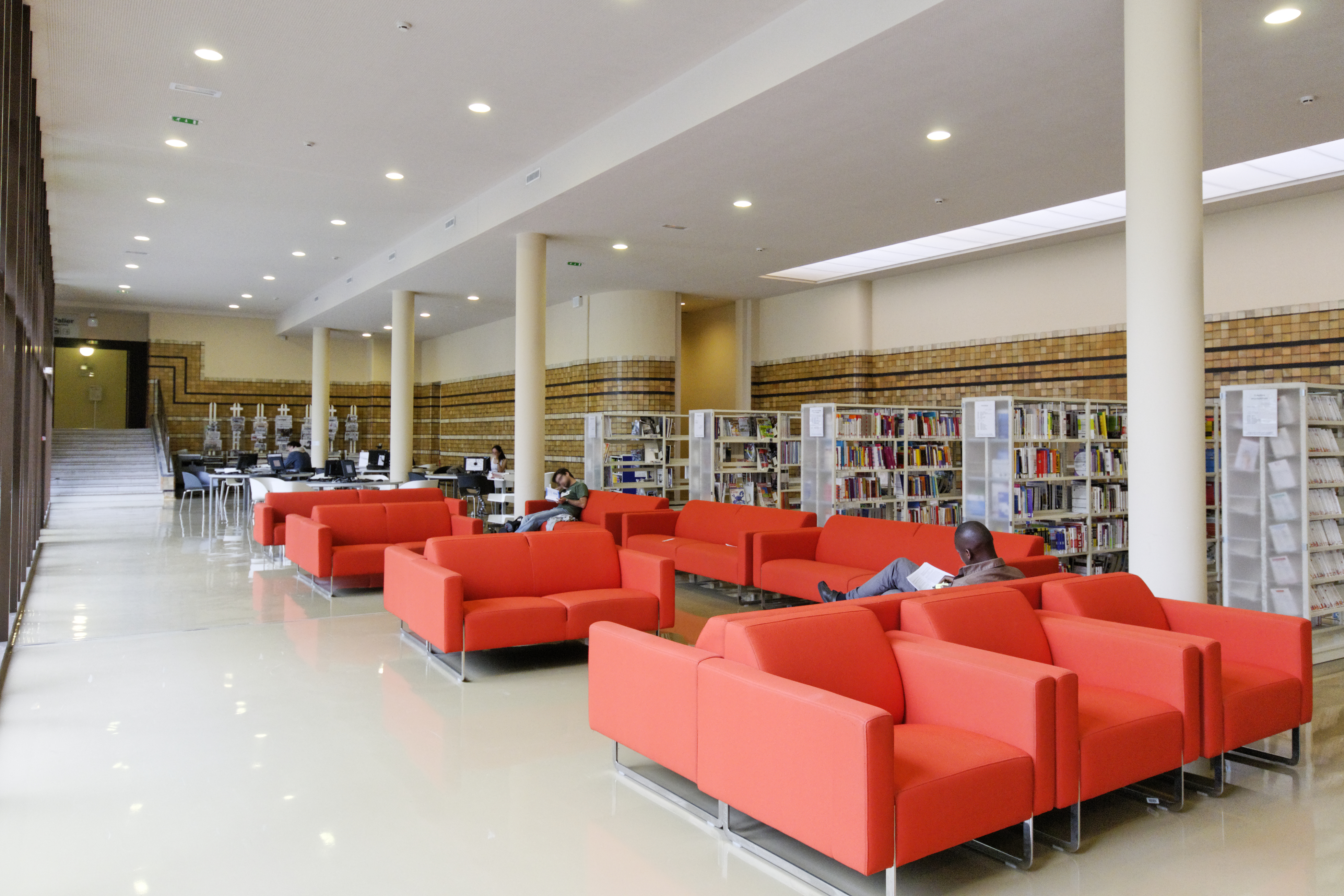 The newspapers reading room of the Sainte-Barbe library, Paris.